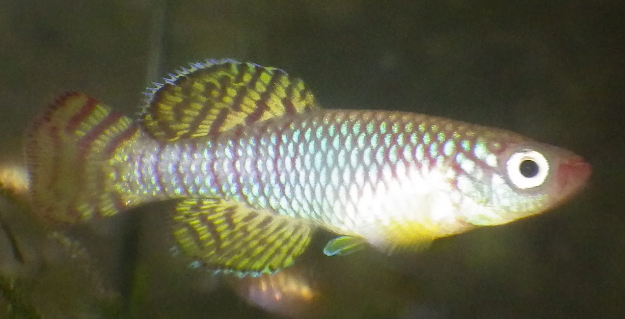 Male N. korthausae, yellow form